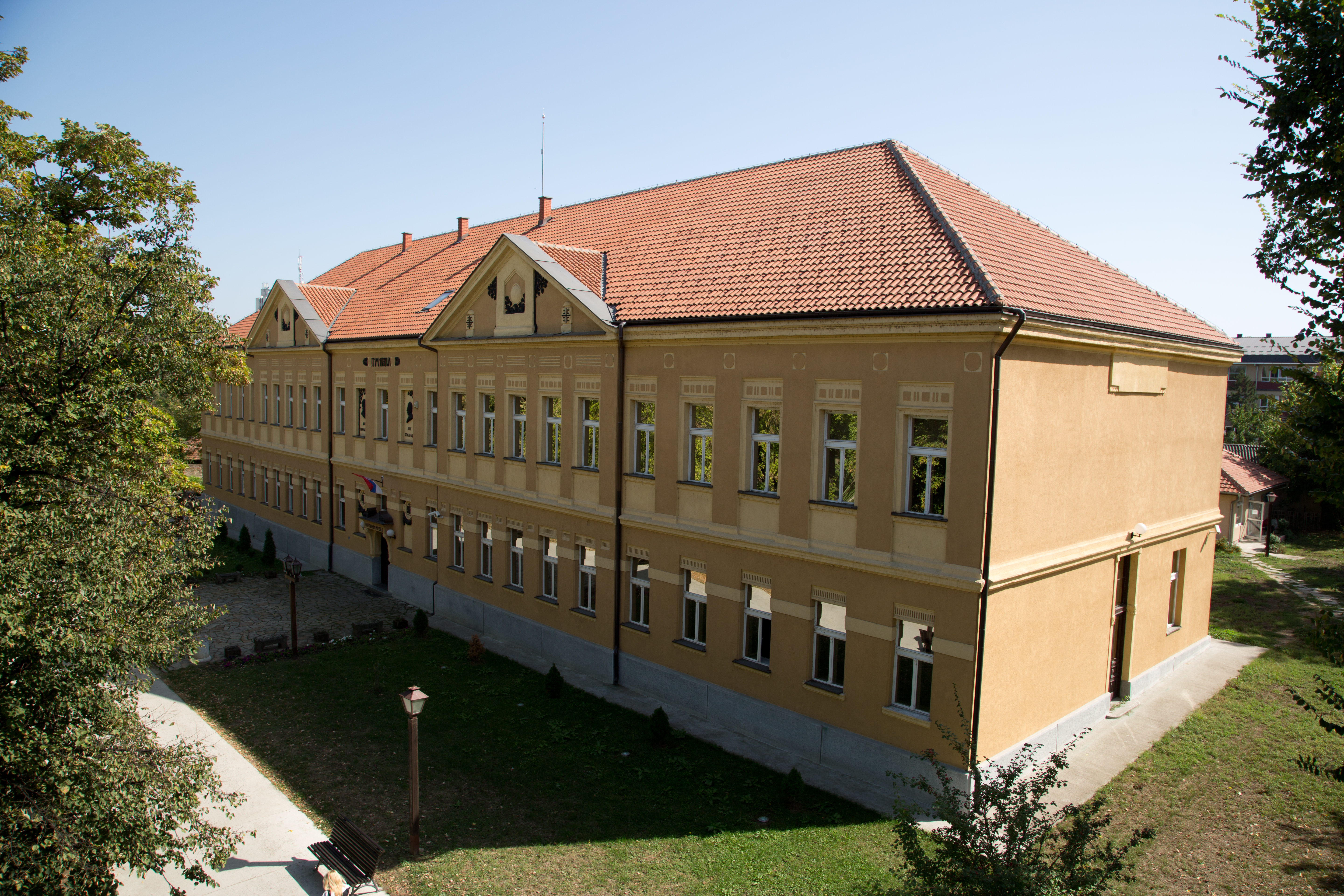 The museum building Srpski (latinica): Zgrada Narodnog muzeja u Kruševcu